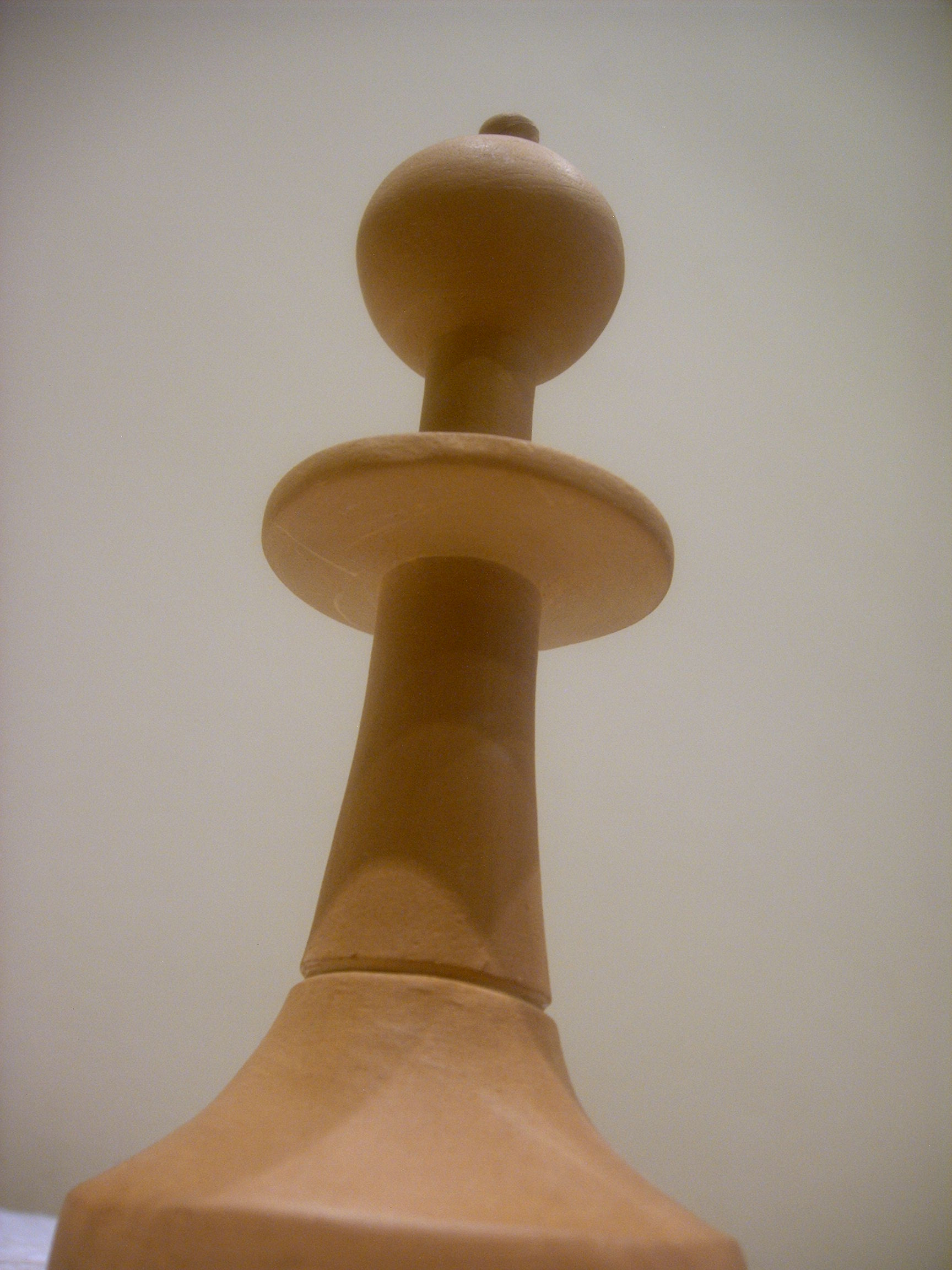 Author: Cme